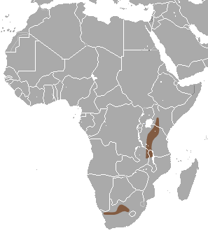 Smith's Red Rock Hare (Pronolagus rupestris) range